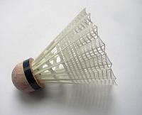 Made it myself. This is a nylon shuttlecock which is almost new. Note that red strips on the head were caused by remains of fabric paint on the racket strings. --bodq 14:22, 6 May 2004 (UTC)